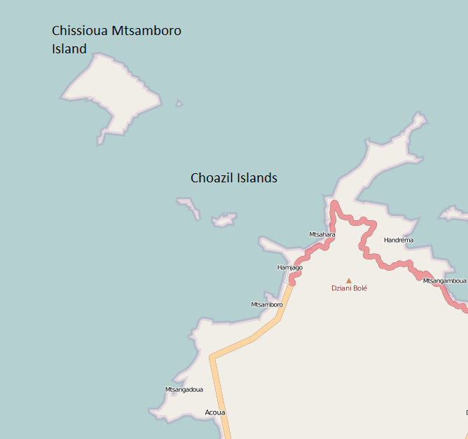 Mtsamboro map